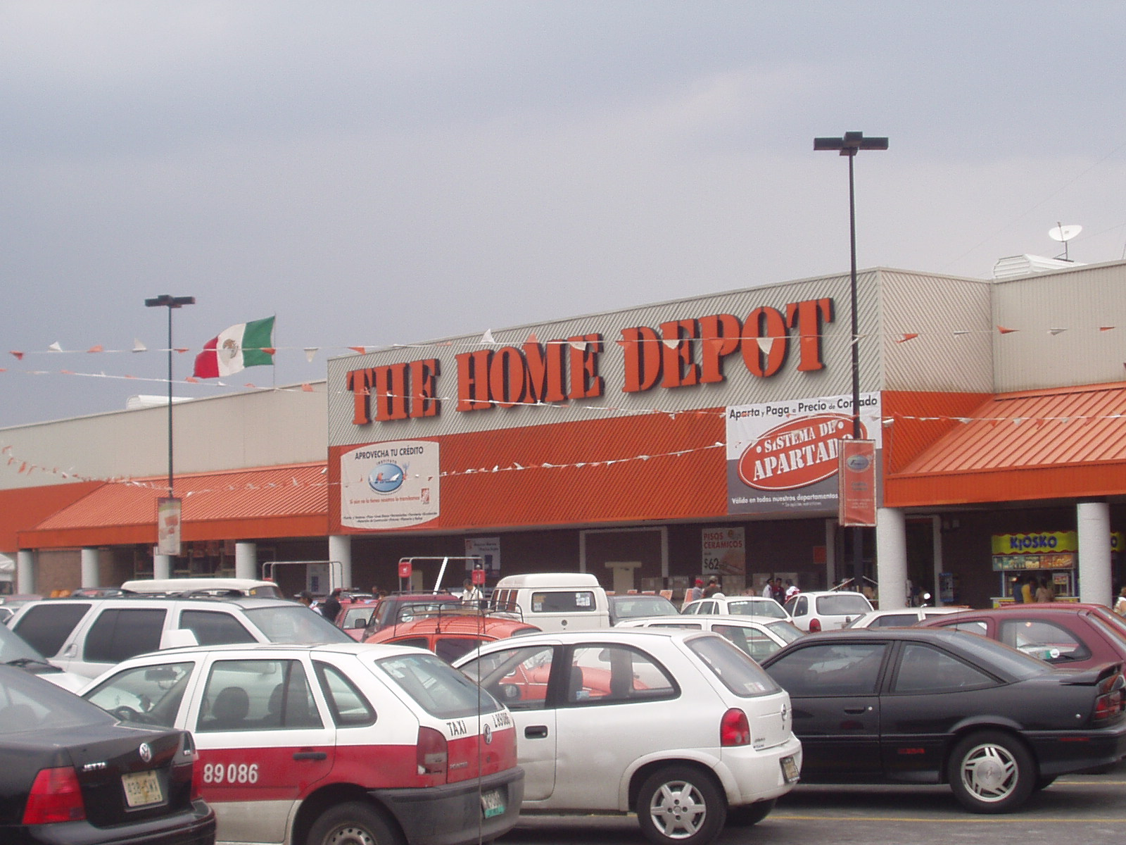 Overview of Home Depot store "Centro" located in Mexico City